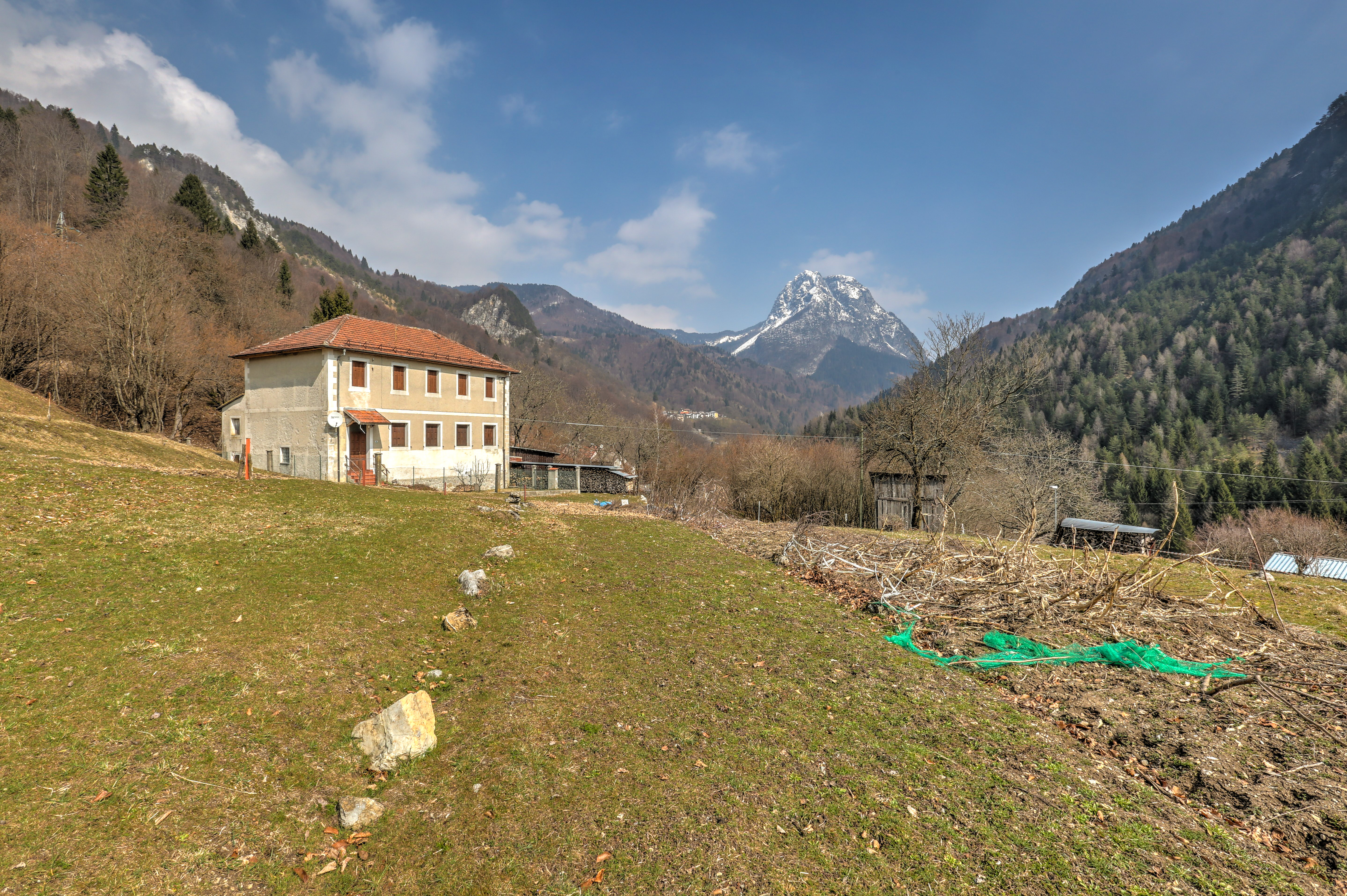 Former Elementary School in Bevorchians in the Val d'Aupa in the Carnic Alps, community Moggio Udinese / Friuli-Venezia Giulia / Italy / EU.